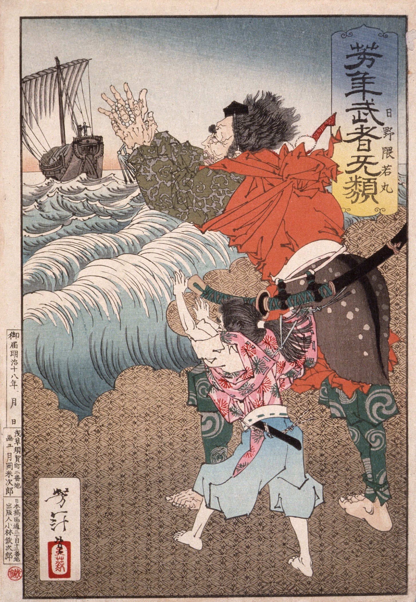 Japan, 1885 Series: Yoshitoshi's Warriors Trembling with Courage Prints; woodcuts Color woodblock print Herbert R. Cole Collection (M.84.31.221) Japanese Art 日野邦光は父に会いに佐渡へ行ったが父が殺されていることを知り、仇討ちを済ませて佐渡を脱出した。少年邦光が供の山伏・大善坊（大膳坊）とともに、逃げるため船を呼び止めている場面を描いたもの。 The boy Hino Kunimitsu(1320-1363) calling the ship to stop because of escaping from the enemy on Sado island. He had succeeded in avenging his father there.